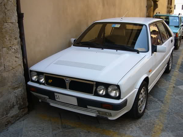 1992 Lancia Delta HF Turbo. Place: Siena, Toscana